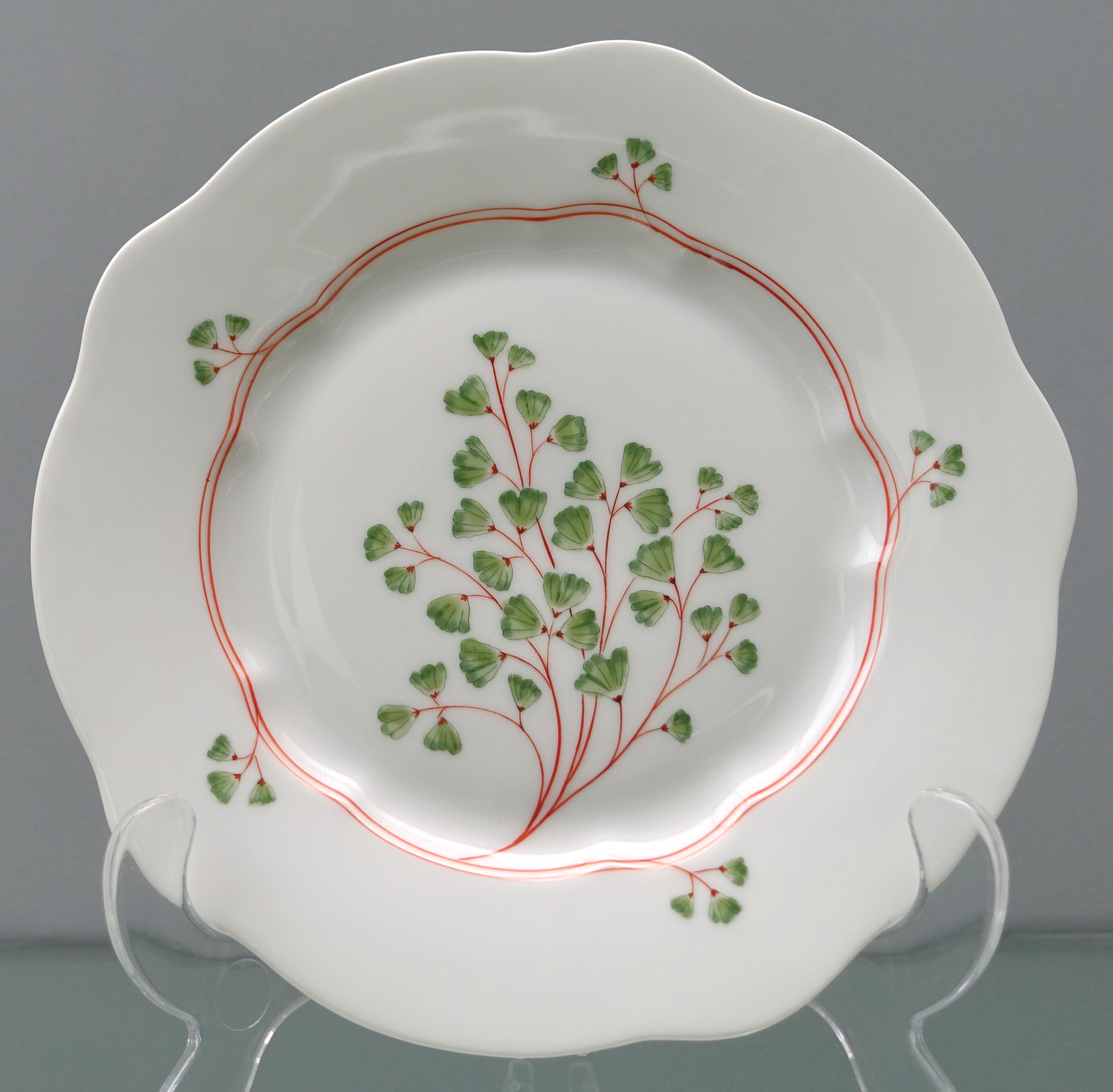 Exhibit in the Bröhan Museum, Berlin, Germany. This work is in the public domain because the artist died more than 70 years ago.